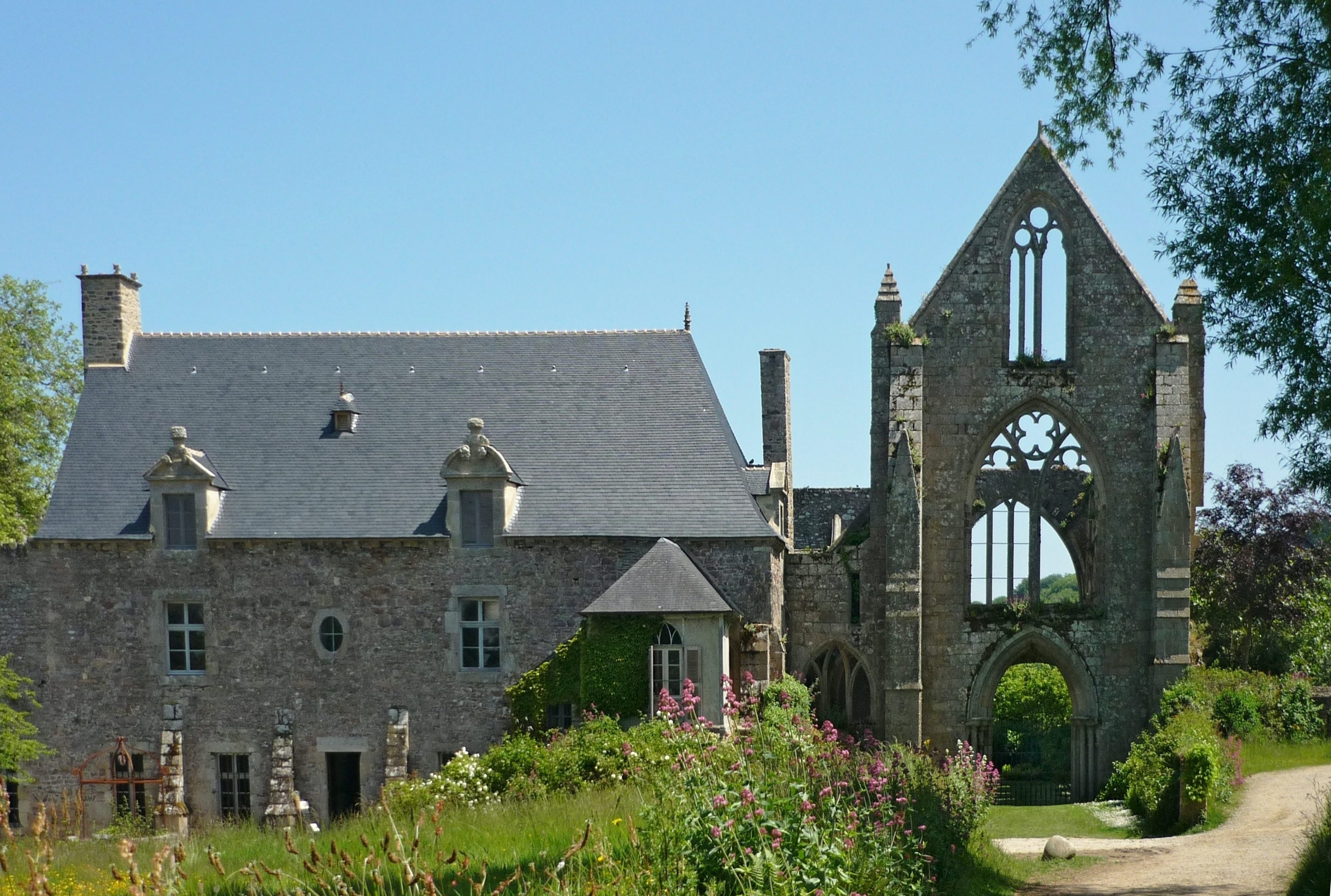 Arrival à Beauport Abbey (XIIIth century). Kérity, Paimpol, Côtes d'Armor, France.